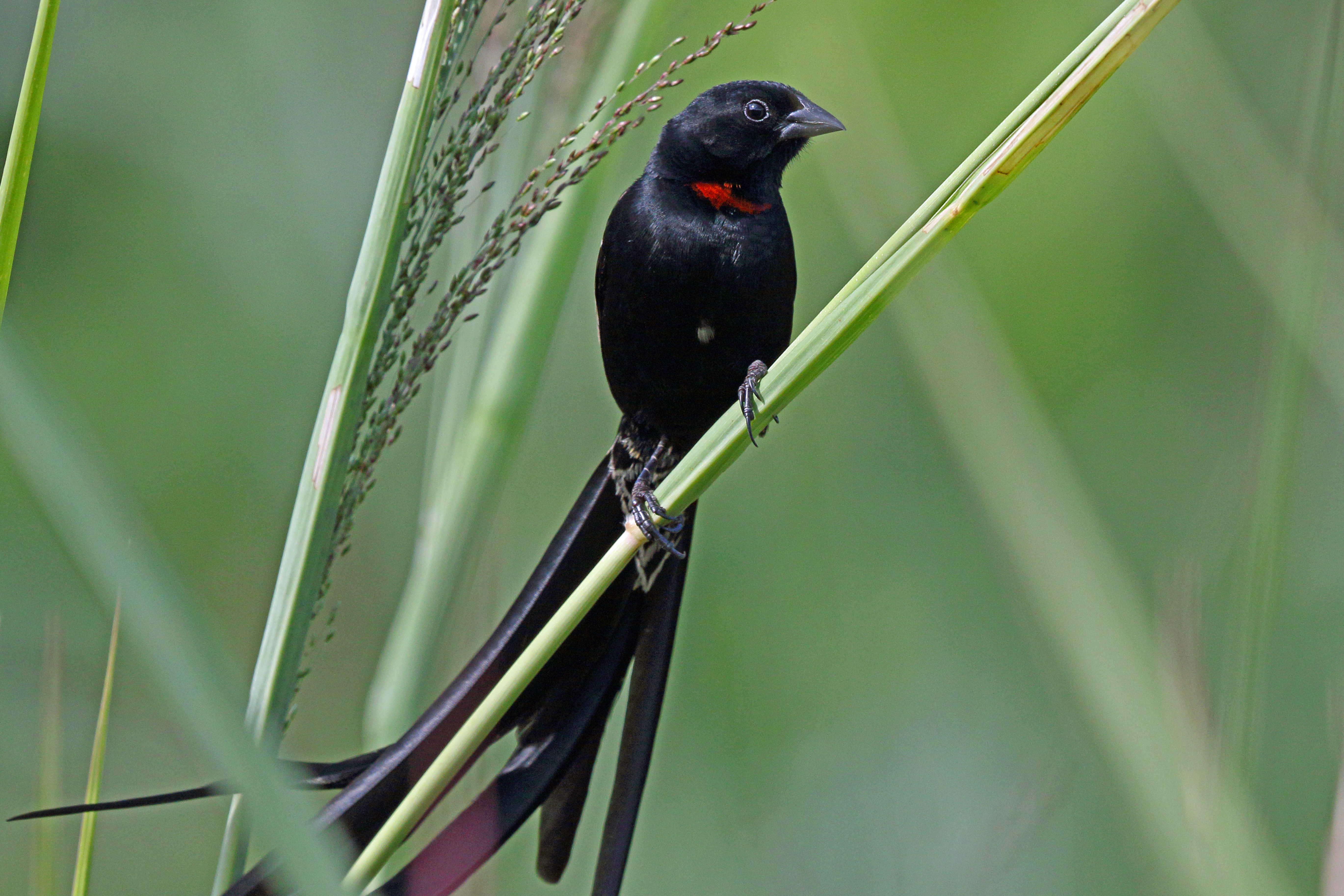 Red-collared Widowbird, Sakania, DR Congo